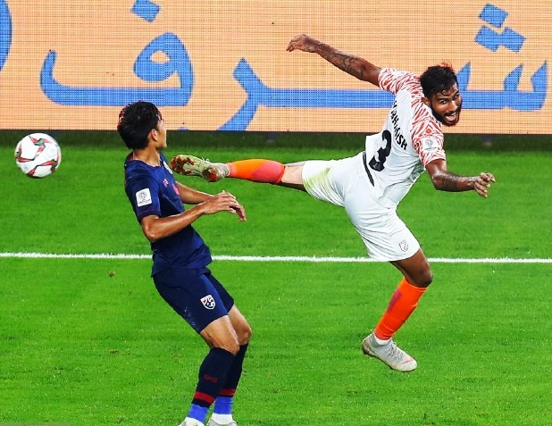 Subhasish Bose, Indian defender in action during 2019 AFC Asian Cup group match against Thailand